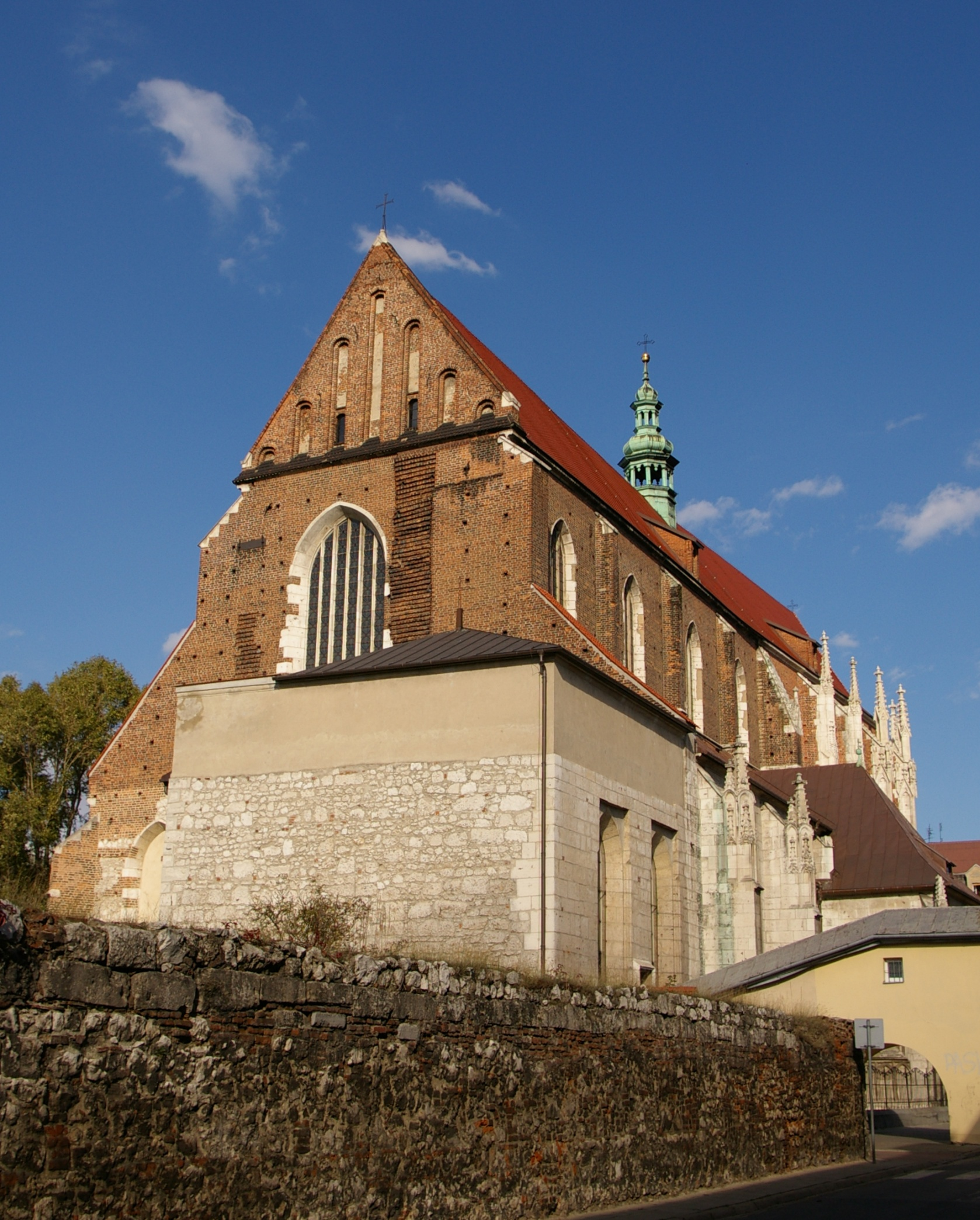 Church of St. Catherine in Kraków